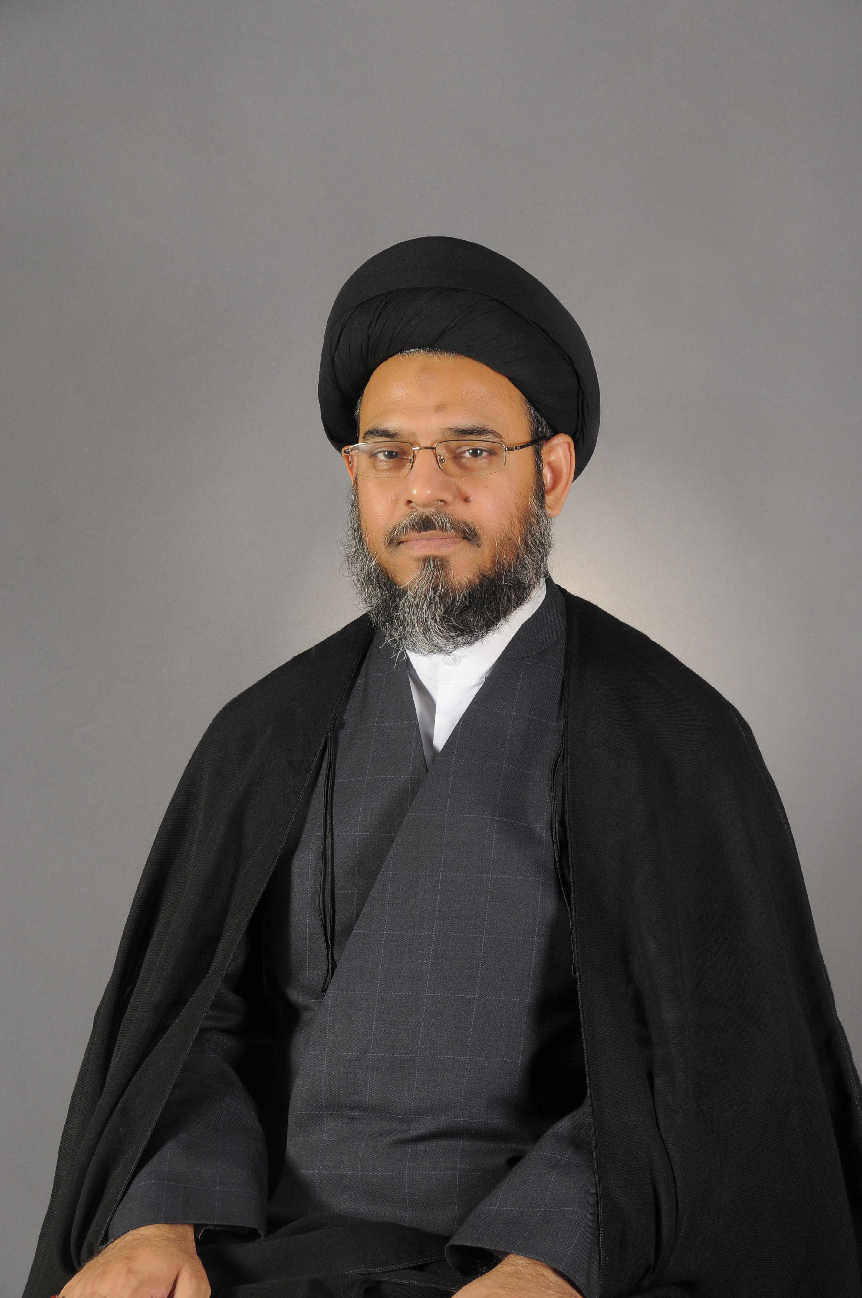 Credits: Mr. Ali Agha Picture of Ayatollah Syed Aqeel ul Gharavi taken at request of Syed Moeid Haider.